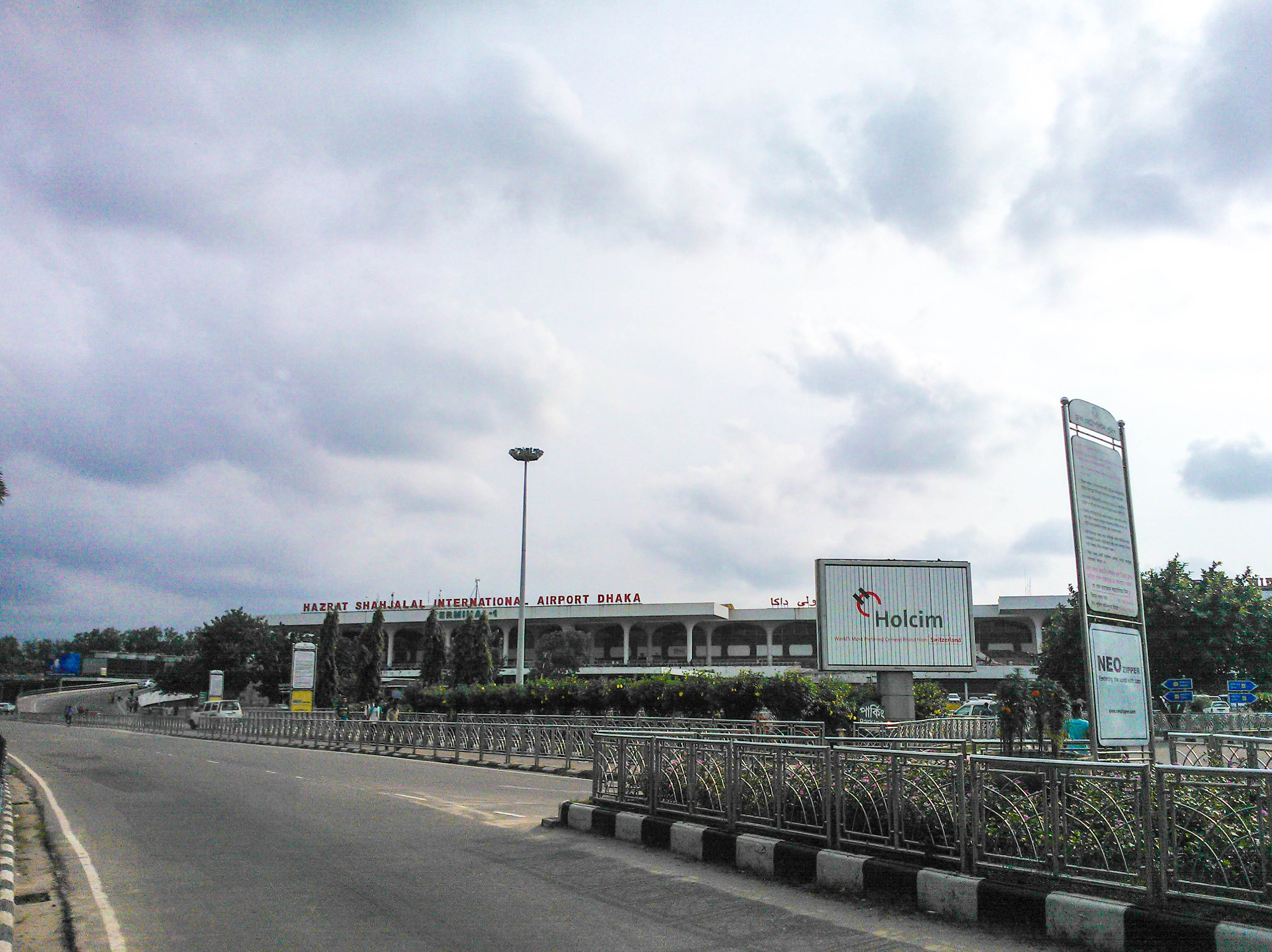 Shahjalal International Airport, Dhaka